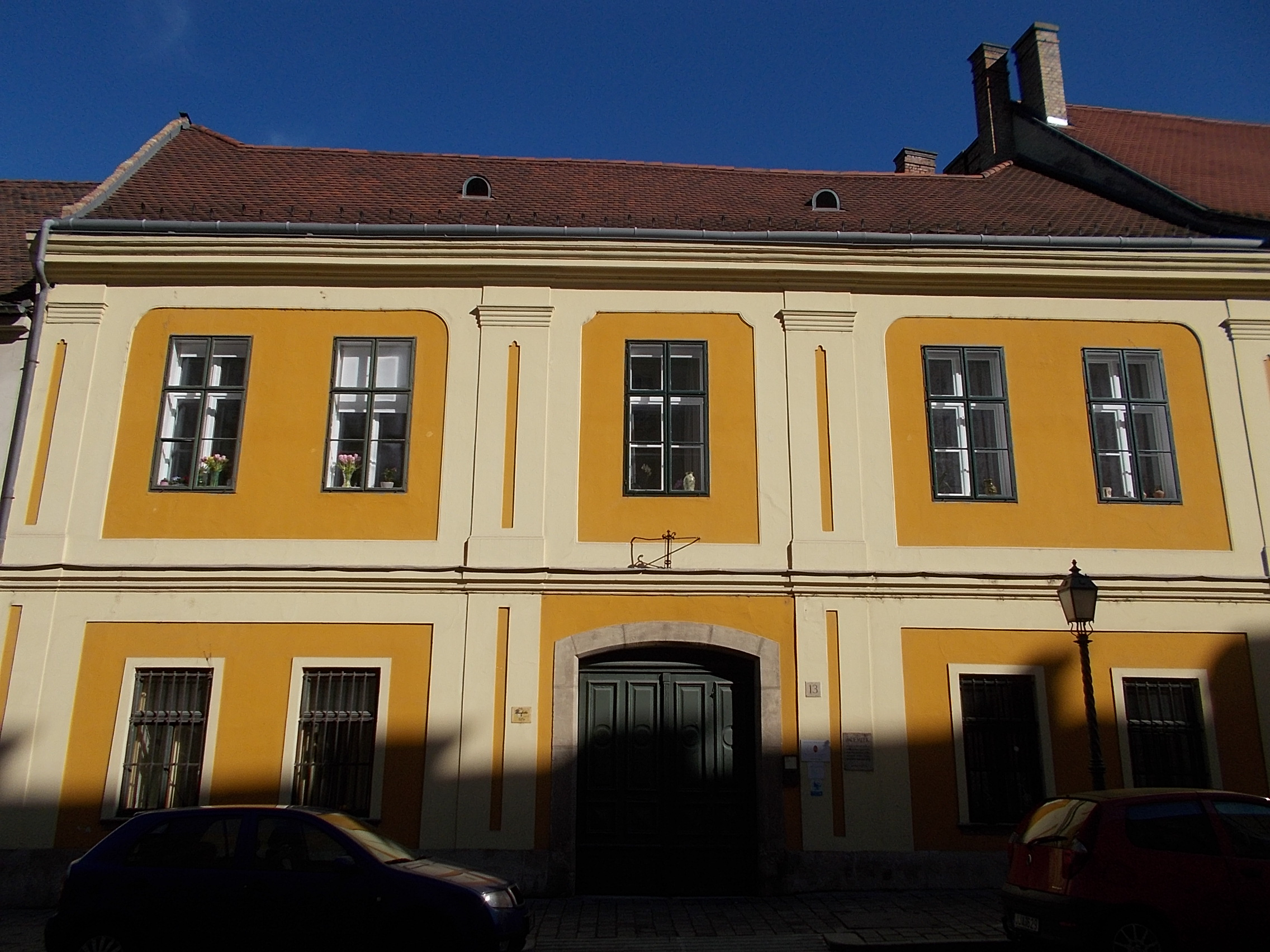 Sztojakovits house, library. Listed Baroque house with medieval elements. - 13 Országház Street, Várnegyed neighbourhood, Budapest District I.